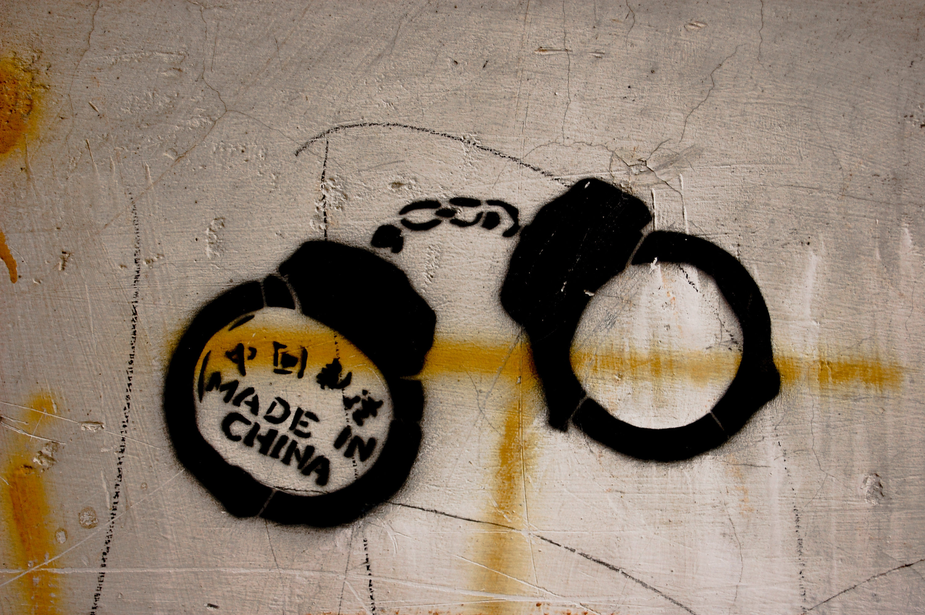 Graffiti stencil in Lublin Old Town